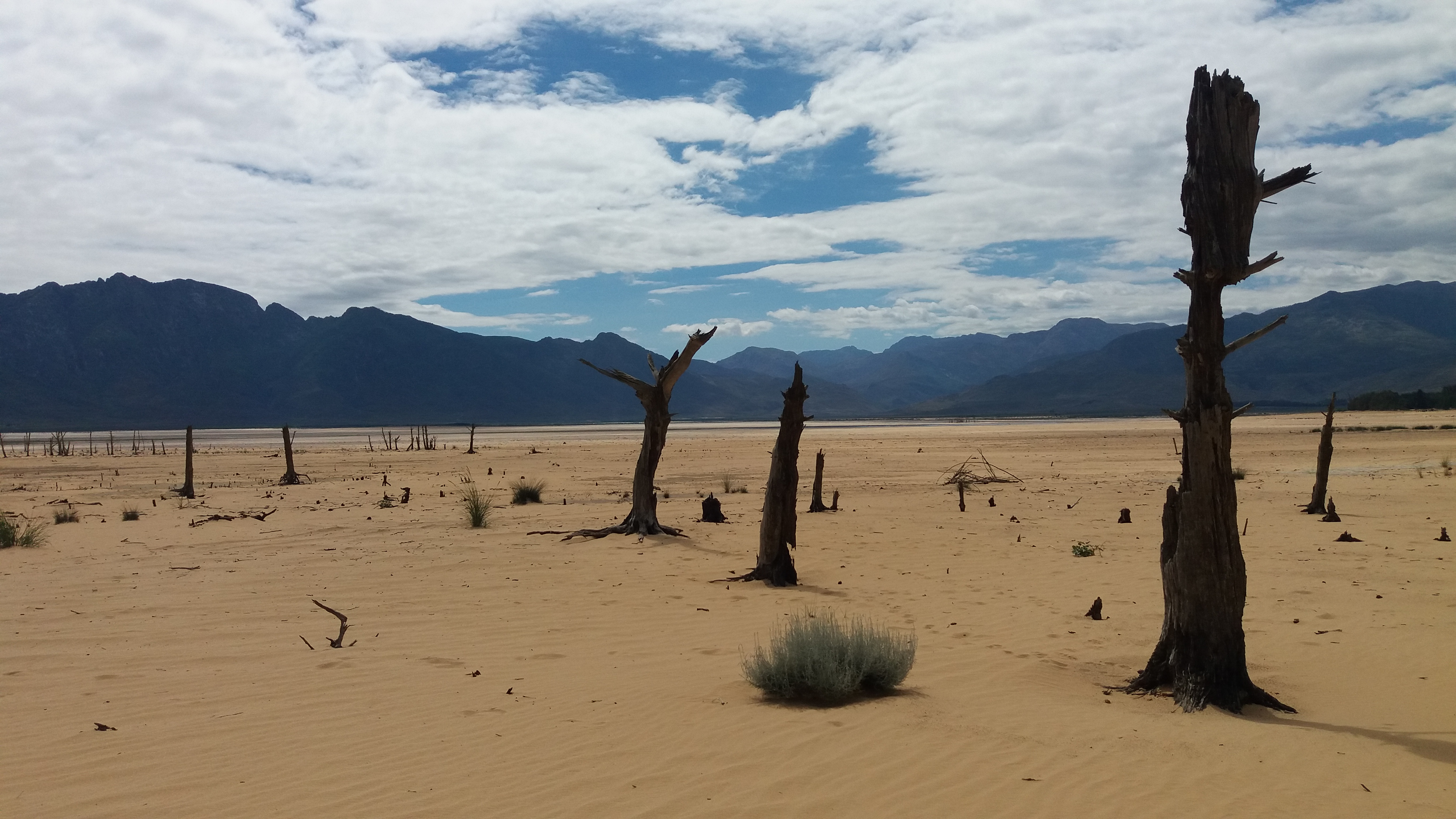 A portion of Theewaterskloof dam, close to empty in 2018, showing tree stumps and sand usually submerged by the water of the dam.